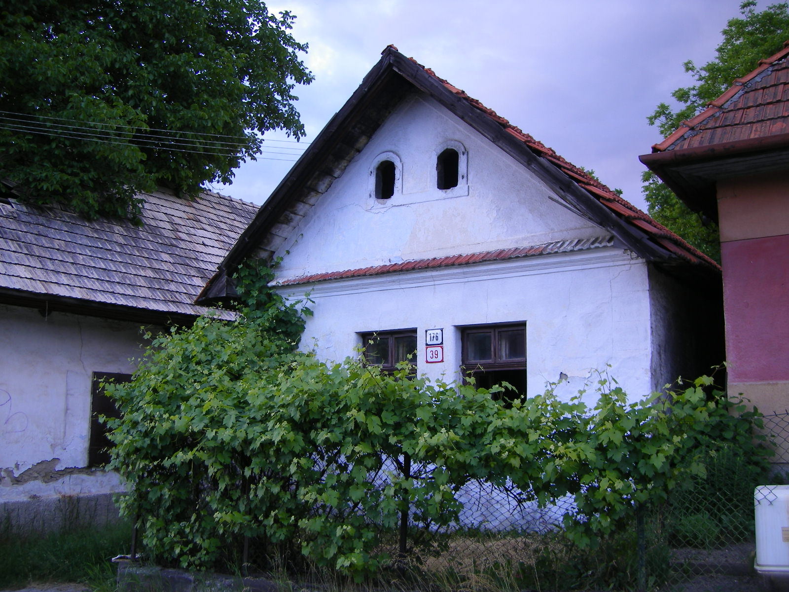 Podhradie